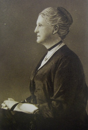 Portrait of Alice Acland